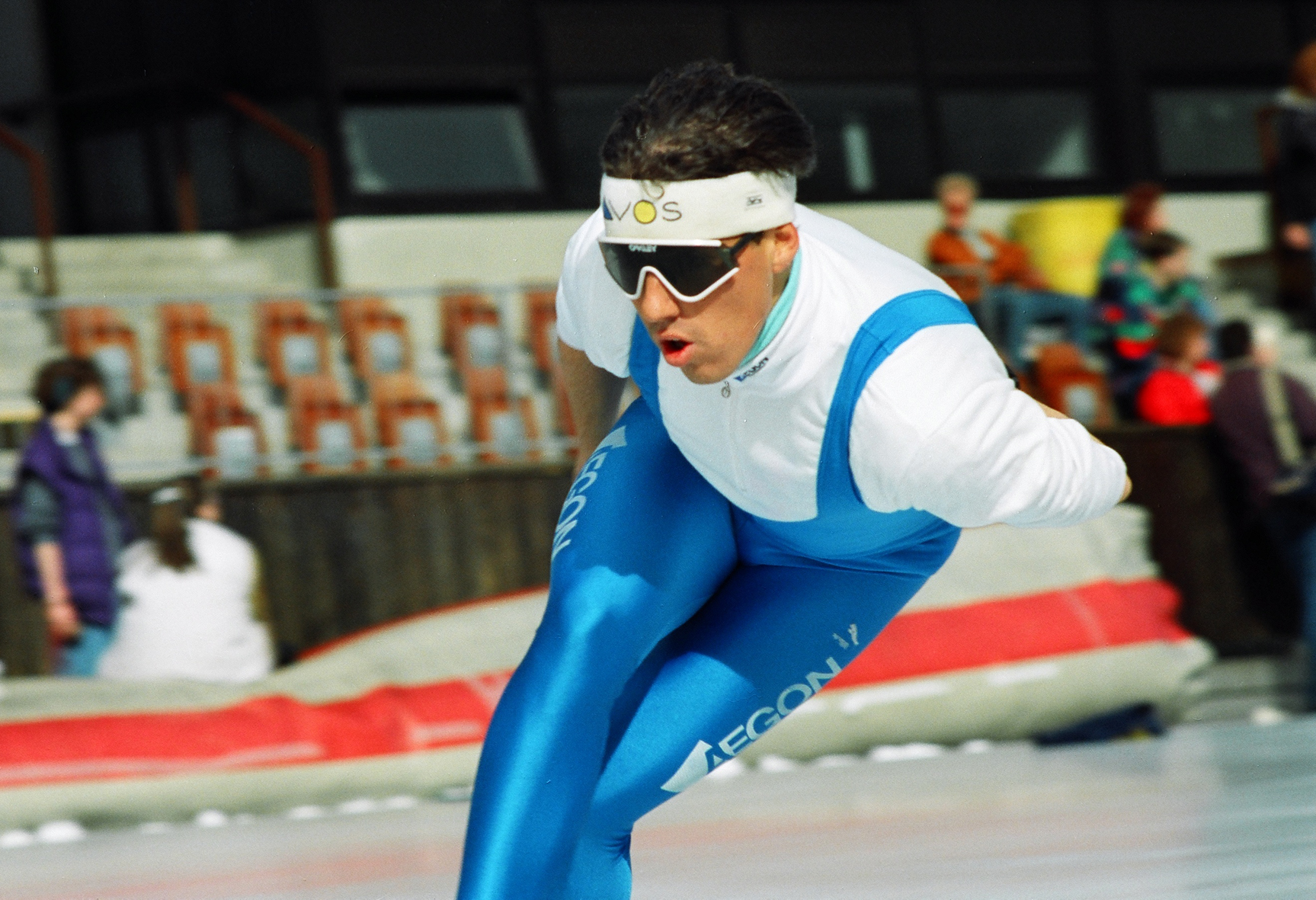 Bart Veldkamp is a former Dutch speedskater